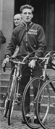 Factual corrections and alternative descriptions are encouraged separately from the original description. Additionally errors can be reported at this page to inform the Bundesarchiv. Original historic description: Friedensfahrt, Mannschaft aus England Zentralbild Wendorf 2.5.1960 - Die Teilnehmer Englands an der XIII. Friedensfahrt 1960. UBz: Die englische Mannschaft vlnr: Bill Bradley....